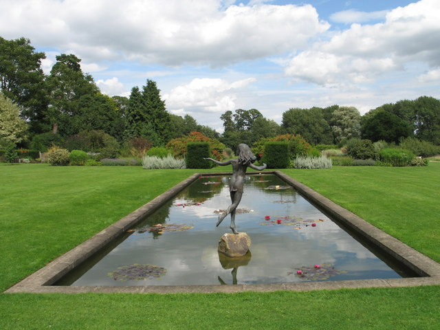 Waterperry Gardens The village of Waterperry lies 7 miles (11 km) east of Oxford on the border with Buckinghamshire. Waterperry House is the former home of the Curzon and Henley families, representatives of which lie in the adjacent private grave-yard. The House, which stands in 8 acres of attractive gardens, is a hybrid of architectural styles; originally a 17th century mansion, it was remodelled in the 18th and 19th centuries. The Waterlily Canal, shown here, is studded with jewel-like waterlilies including varieties like James Brydon, Escarboucle, Gladstoniana, Texas Dawn, Cromatella, Perry's Pink. The statue of Miranda from Shakespeare's The Tempest, sculptured by Tanya Russel surveys the scene.